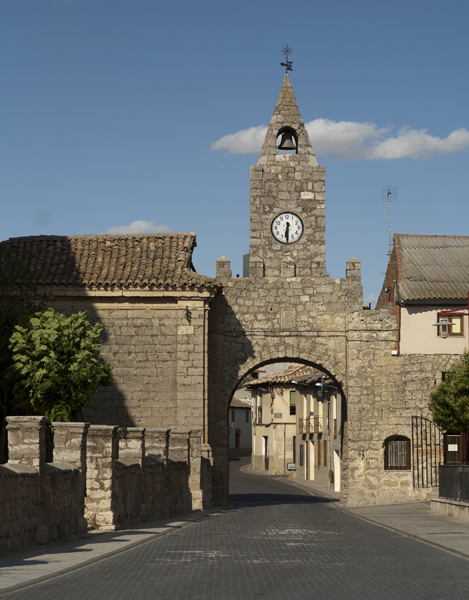 Calle Mariano Mateo; Villabrágima; Castilla y León, Valladolid, Spain; ref: PM_017753_E_Viladragima; ; ; Photographer: Paul M.R. Maeyaert; © Paul M.R. Maeyaert; ; Cultural heritage; Europe/Spain/Villabrágima